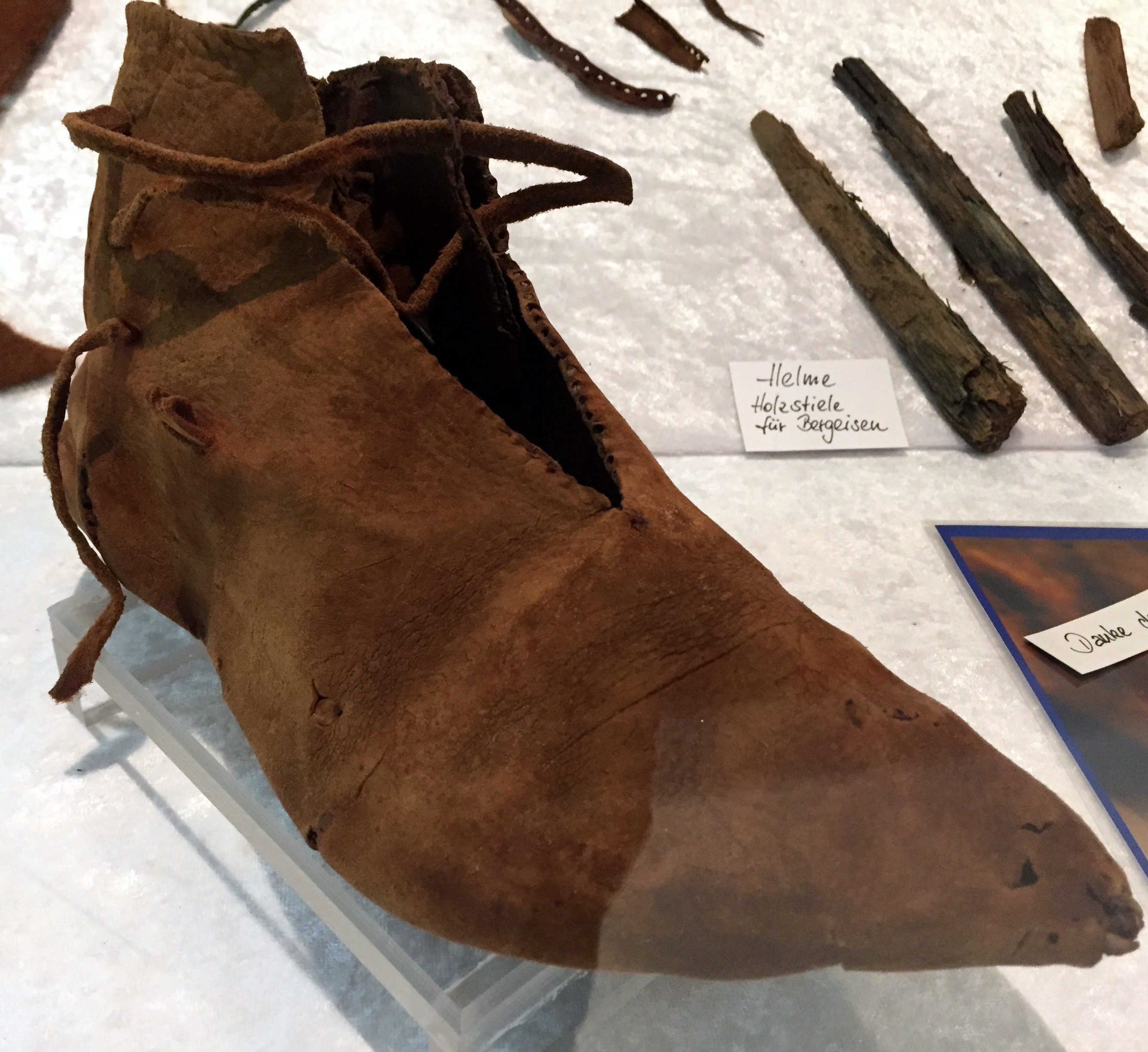 Mediaeval shoe of a miner (miner's show), found in the mine of Teufelsgrund, Münstertal, Germany